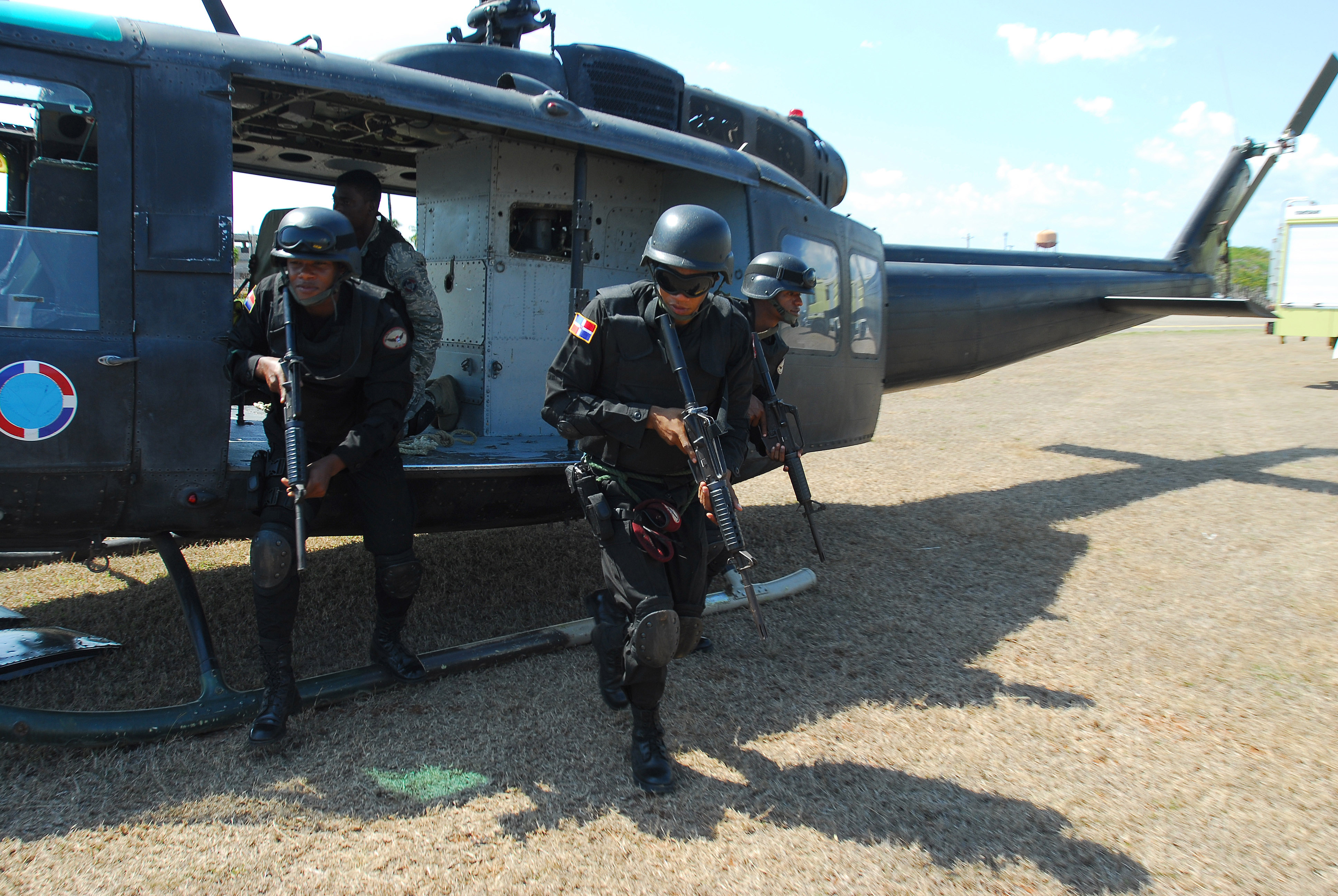 Commandos assigned to the Dominican counterterrorism unit rehearse the proper way to exit a helicopter prior to conducting a live exercise on how to recover a downed pilot during a training event at San Isidro Air Base, Dominican Republic, March 3. The training was in preparation for Fused Response 2011, a combined U.S. and Dominican military exercise, taking place March 7 - 11 designed to increase the capacity to combat terrorism and illicit trafficking. (U.S. Army Photo by Sgt. 1st Class Alex Licea, Special Operations Command South Public Affairs)